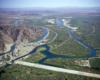 Overhead of the Laguna Diversion Dam, looking due north. The All American Canal on left, the Colorado River on right.